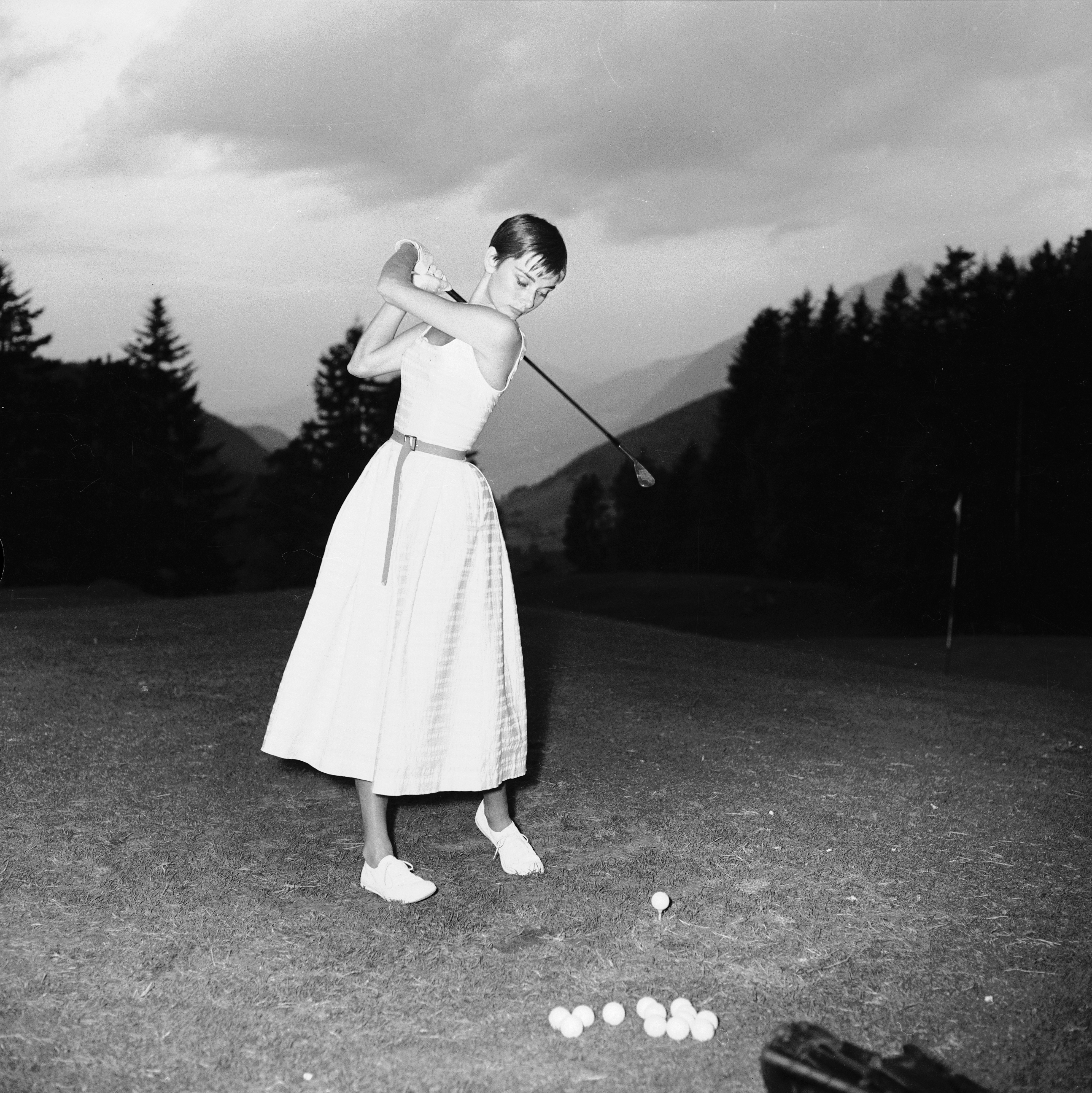 Audrey Hepburn playing Golf, Bürgenstock, Switzerland